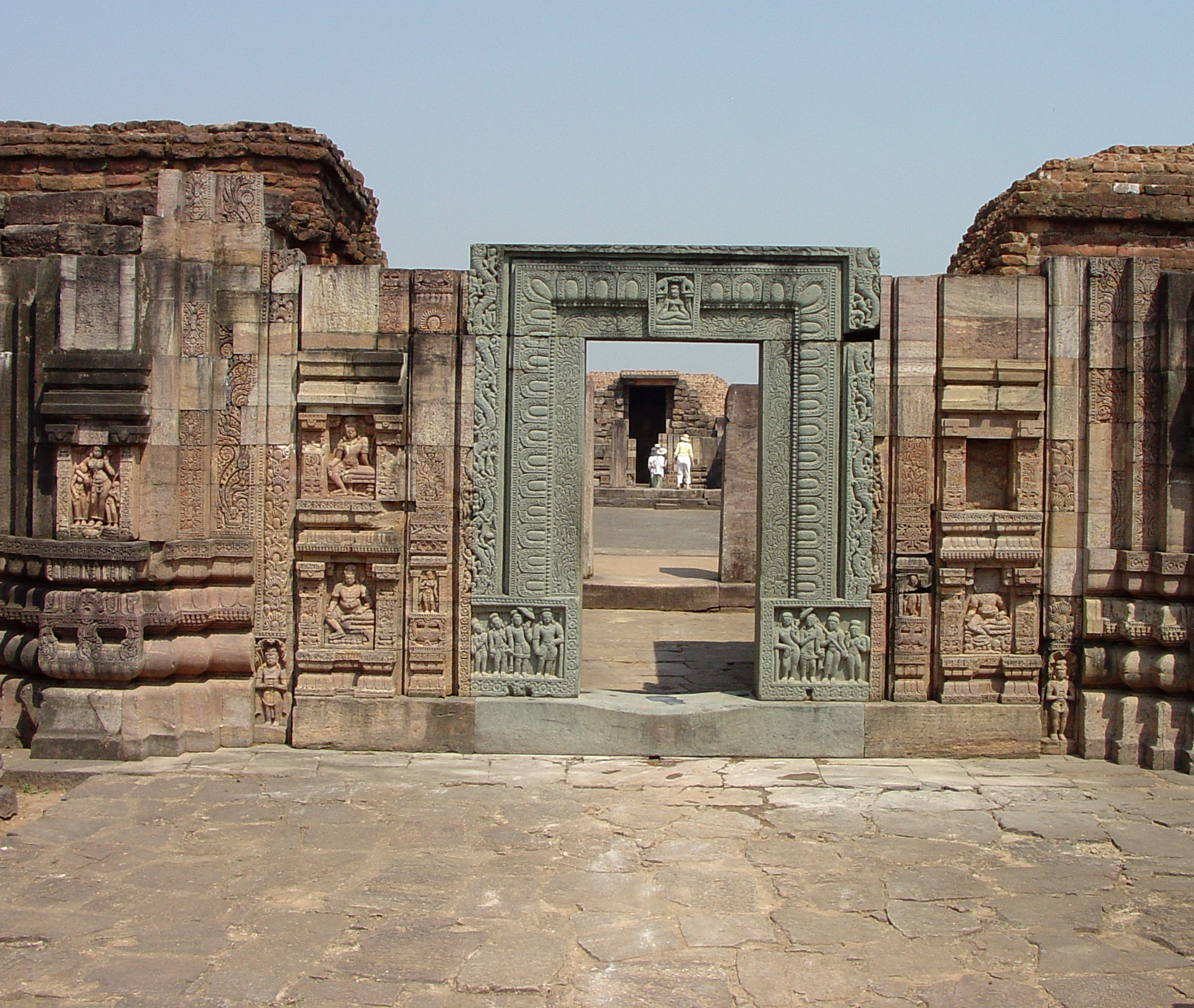 Inner Entrance. Monastery 1, Ratnagiri The celebrated green chlorite entrance to the monastary pierces the south inner wall as seen here. The monastery's inner shrine is the shadowed area visible across the courtyard through the gateway.